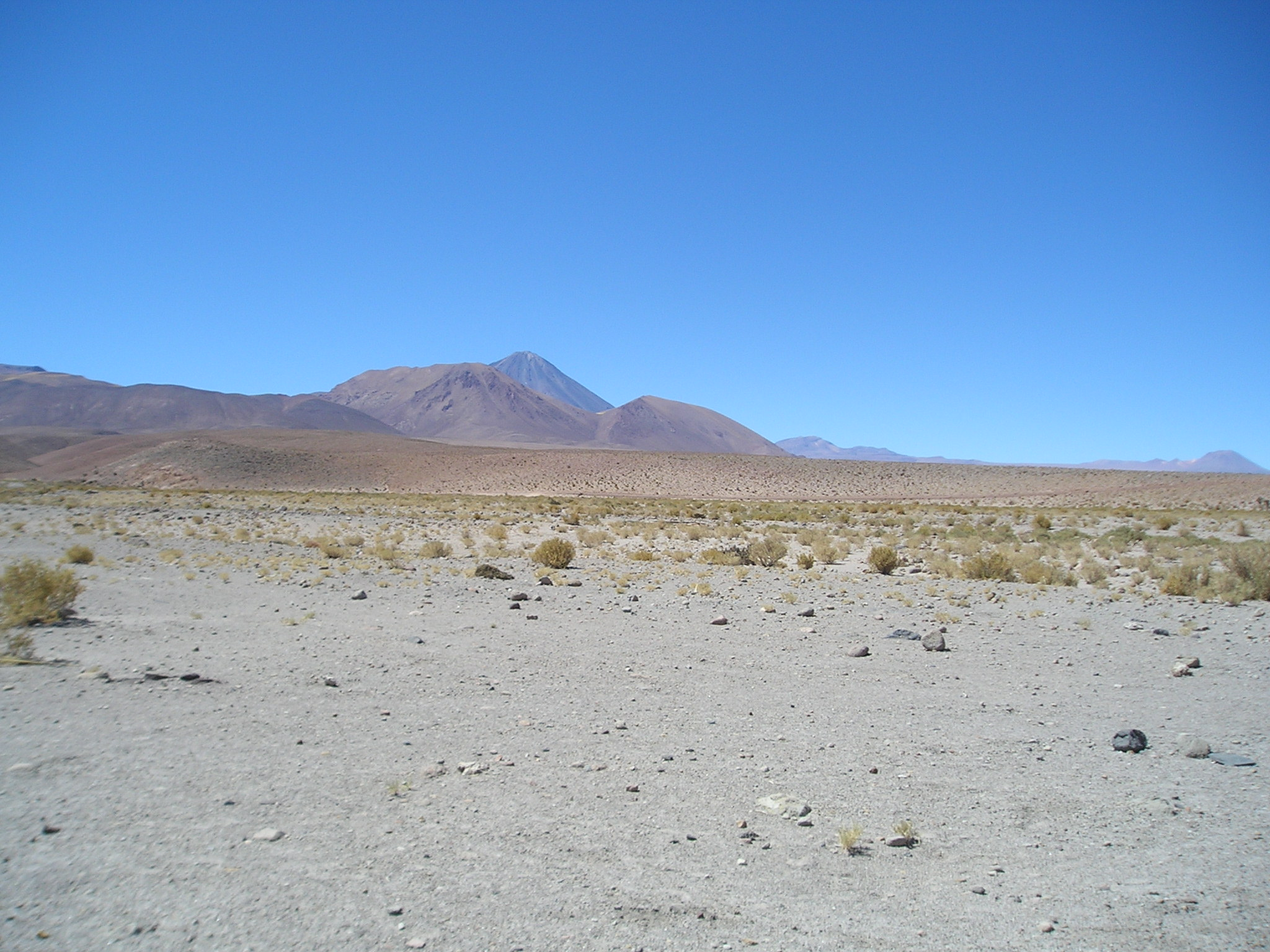 Chilean Altiplano nearby Guatín, between El Tatio and San Pedro de Atacama. Licancabur cone at the background.